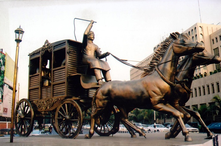 Rajoshik sculpture, Mintoo Road, Dhaka